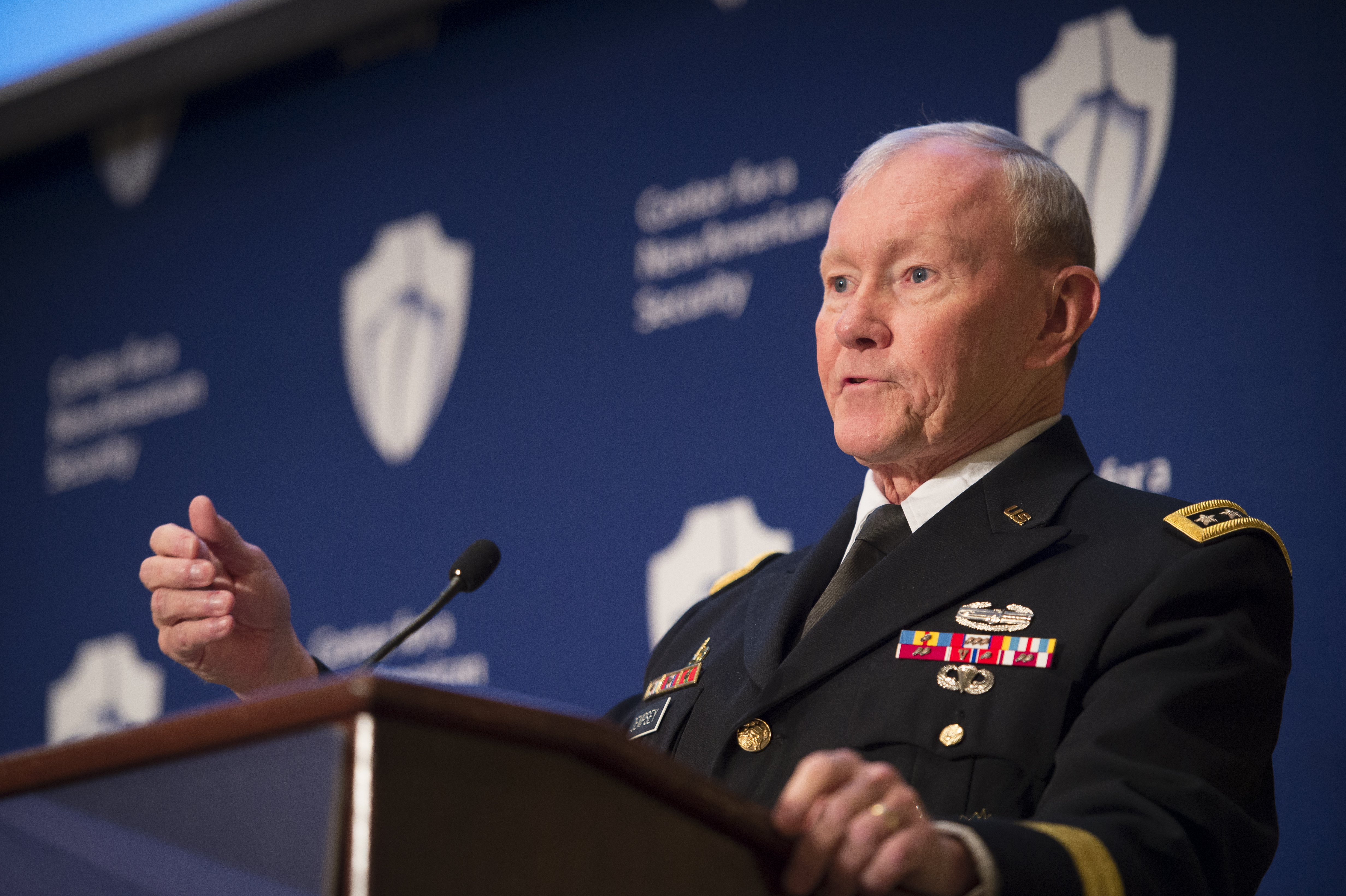 18th Chairman of the Joint Chiefs of Staff Gen. Martin E. Dempsey speaks at a conference on civil-military divide and the future of the all-volunteer force hosted by Center for a New American Security at the Willard InterContinental Hotel in Washington D.C., Nov., 20, 2014.